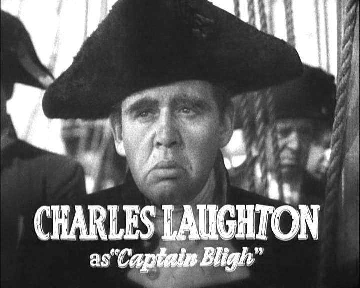 Cropped screenshot of Charles Laughton from the trailer for the film Mutiny on the Bounty.